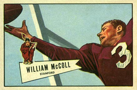 American football player Bill McColl on a 1952 Bowman Large card.